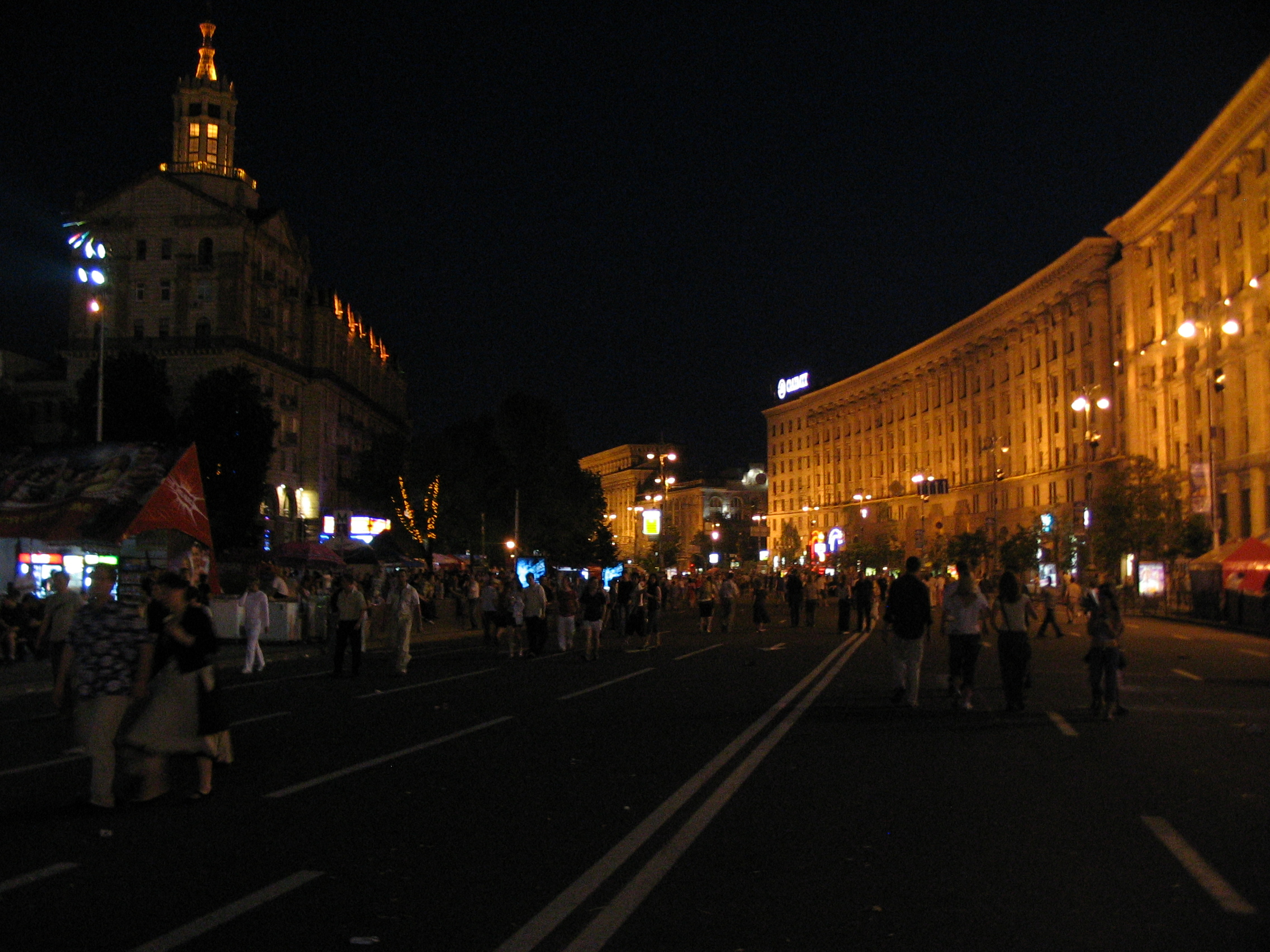 View of the Khreschatyk street at night in Kiev, the capital of Ukraine.